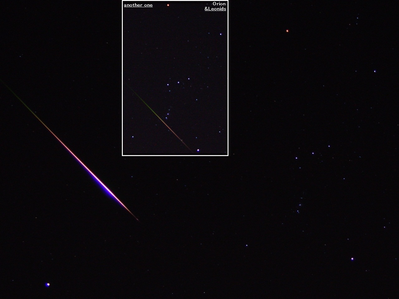 Leonids and Orion in Japan